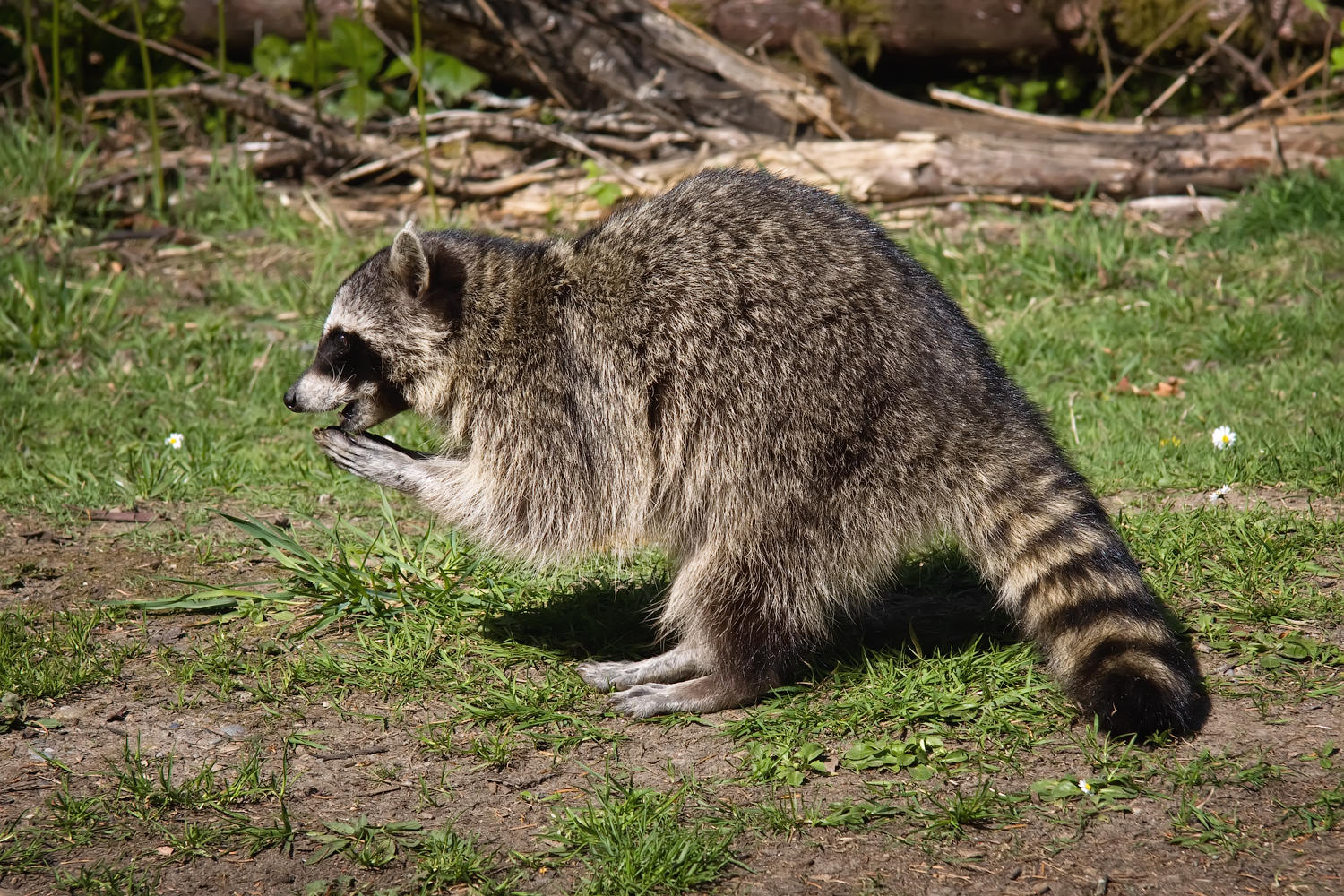 Raccoon (Procyon lotor)